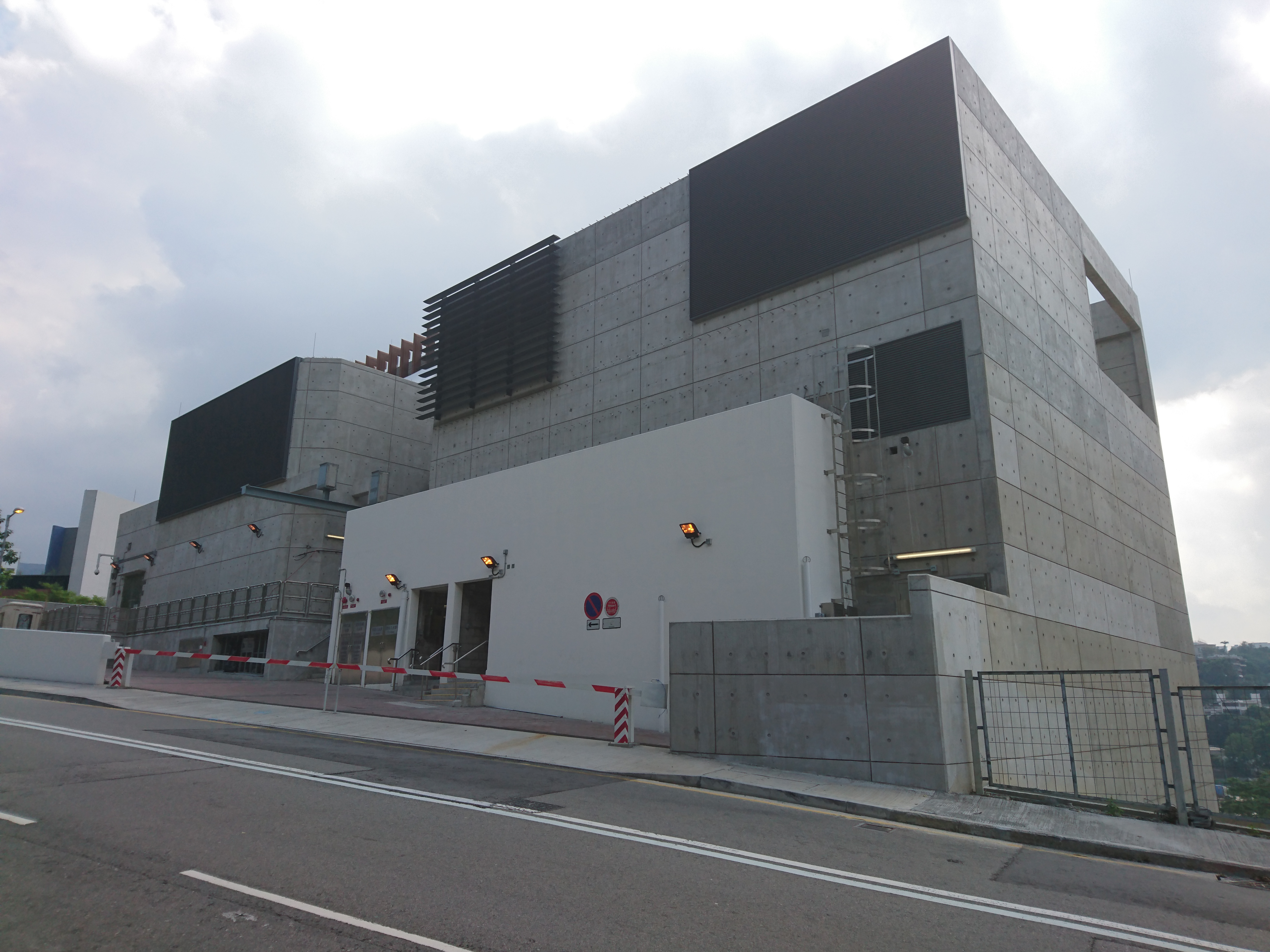 South Island Line Nam Fung Portal South Entrance Building in Nov 2016